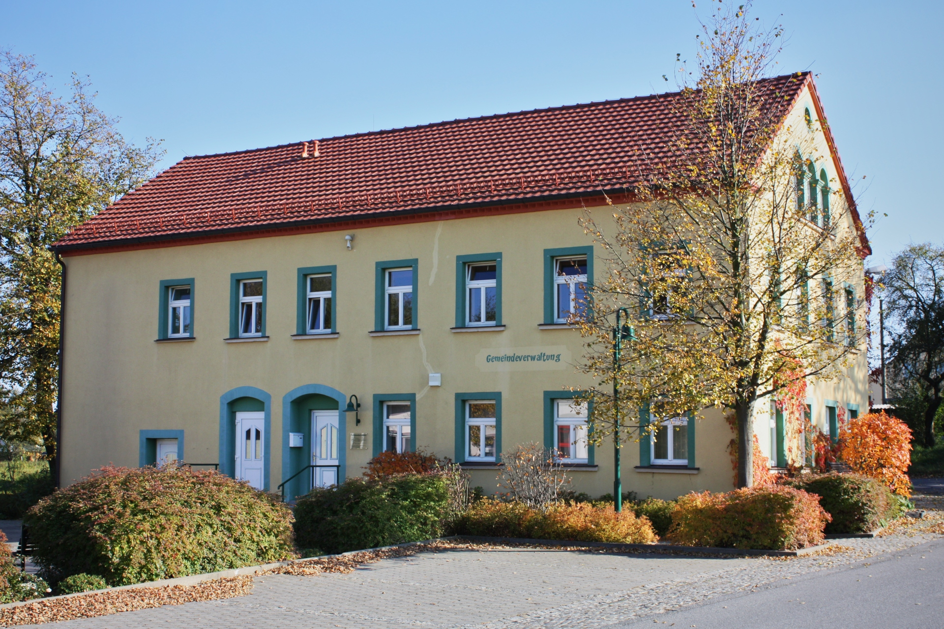 Municipality of Frankenthal in the district of Bautzen in Saxony, Germany.